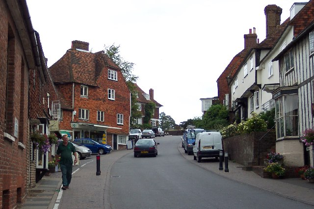 Goudhurst, Kent. The picturesque Wealden village of Goudhurst wasn't always so peaceful. Smuggling was rife in the area in the 19th century and the business had none of the roguish charm with which it has since been endowed. The Hawkhurst Gang was one of the largest and operated throughout Kent, Hampshire and even Dorset. They were also very violent, threatened those who opposed them, and terrorised the neighbourhood. Eventually the villagers of Goudhurst set up their own Militia, trained by a former soldier, to deal with the problem, whereupon the smugglers threatened to attack the village, kill the residents, and burn the place to the ground. But when the smugglers attacked, it was they who were defeated, three of their number being killed including the gang leader's brother.